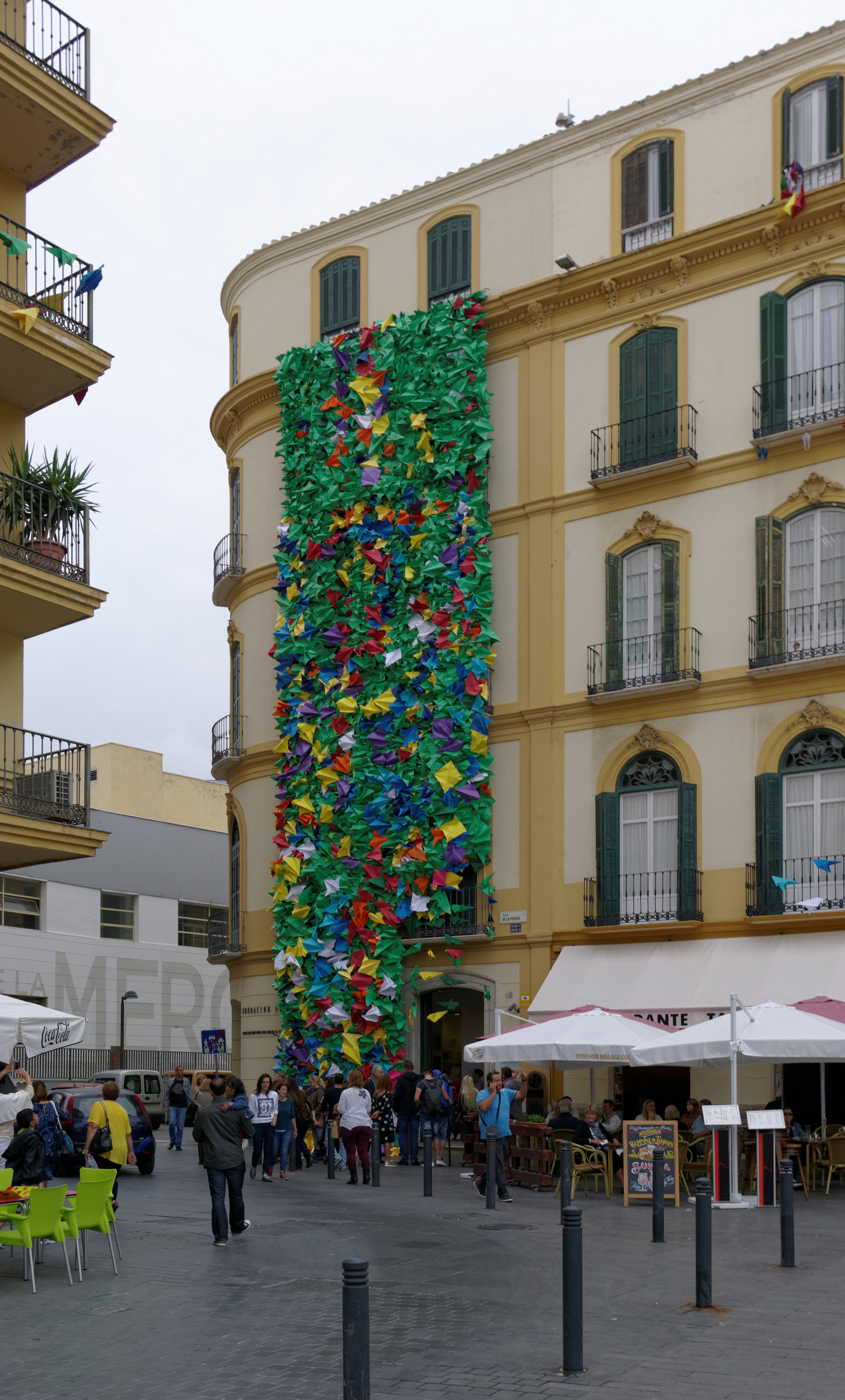 Spain, Malaga, Plaza de la Merced, Birthplace of Pablo Picasso